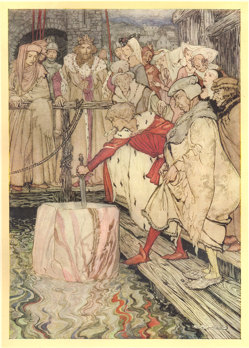 "How Galahad drew out the sword from the floating stone at Camelot." From: Pollard, Alfred W. The Romance of King Arthur and His Knights of the Round Table, Abridged from Malory's Morte D'Arthur. New York: The Macmillan Company, 1917. P. 318 facing.